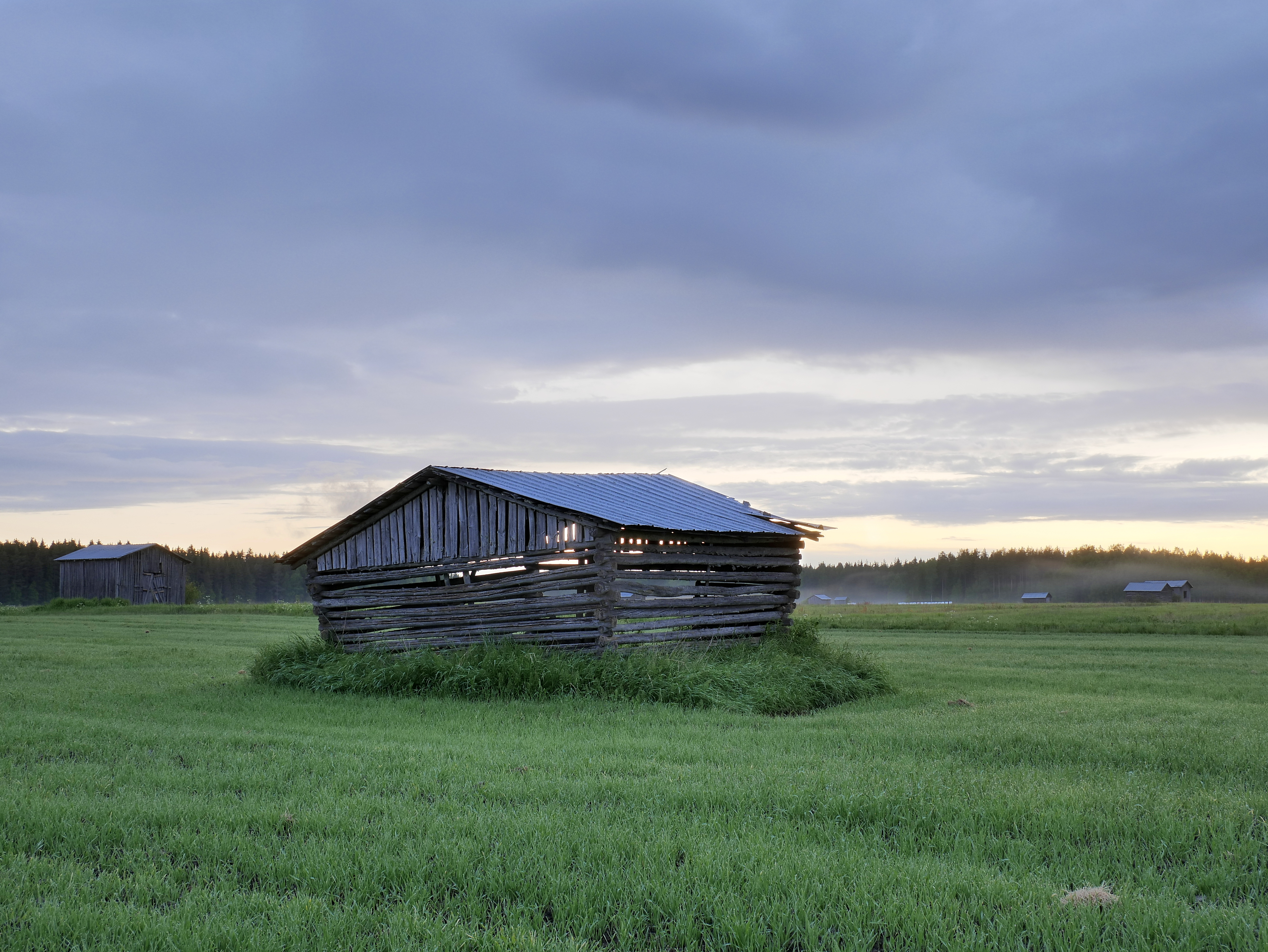 Field barn.